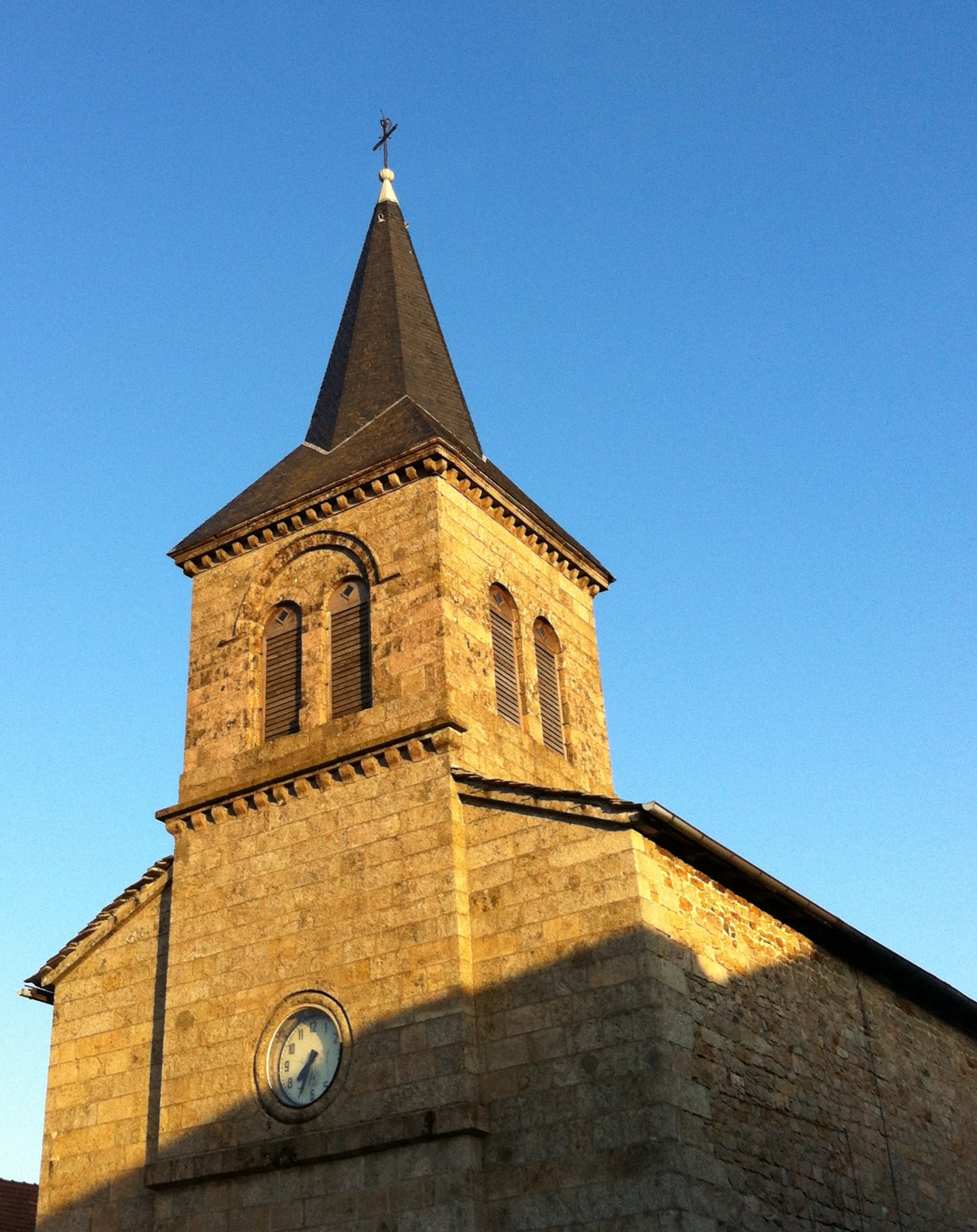 Church of Saint-Bonnet-le-Froid.